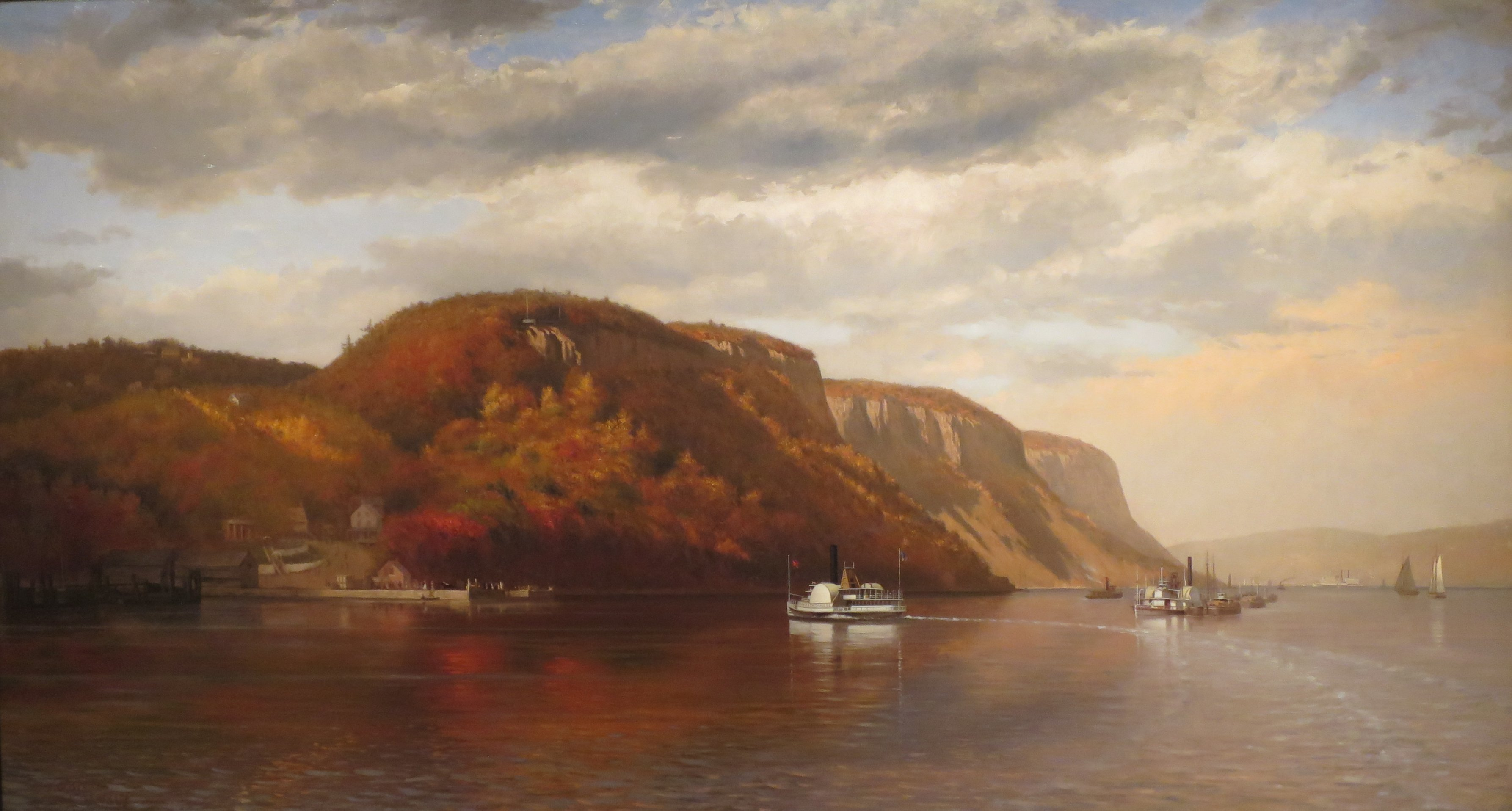 John George Brown (1831-1913), On the Hudson, 1867, oil on canvas, 39 x 72 inches, Fine Arts Museums of San Francisco, Gift of Mr. and Mrs. John D. Rockefeller 3rd, 1979.7.19. The painting depicts the view from Hudson River looking at shoreline which lies in Edgewater and Fort Lee, NJ with Burdett's Landing the destination of the ferry crossing the river.